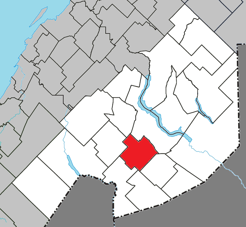 Location of Saint-Eusèbe, Quebec within Témiscouata Regional County Municipality.